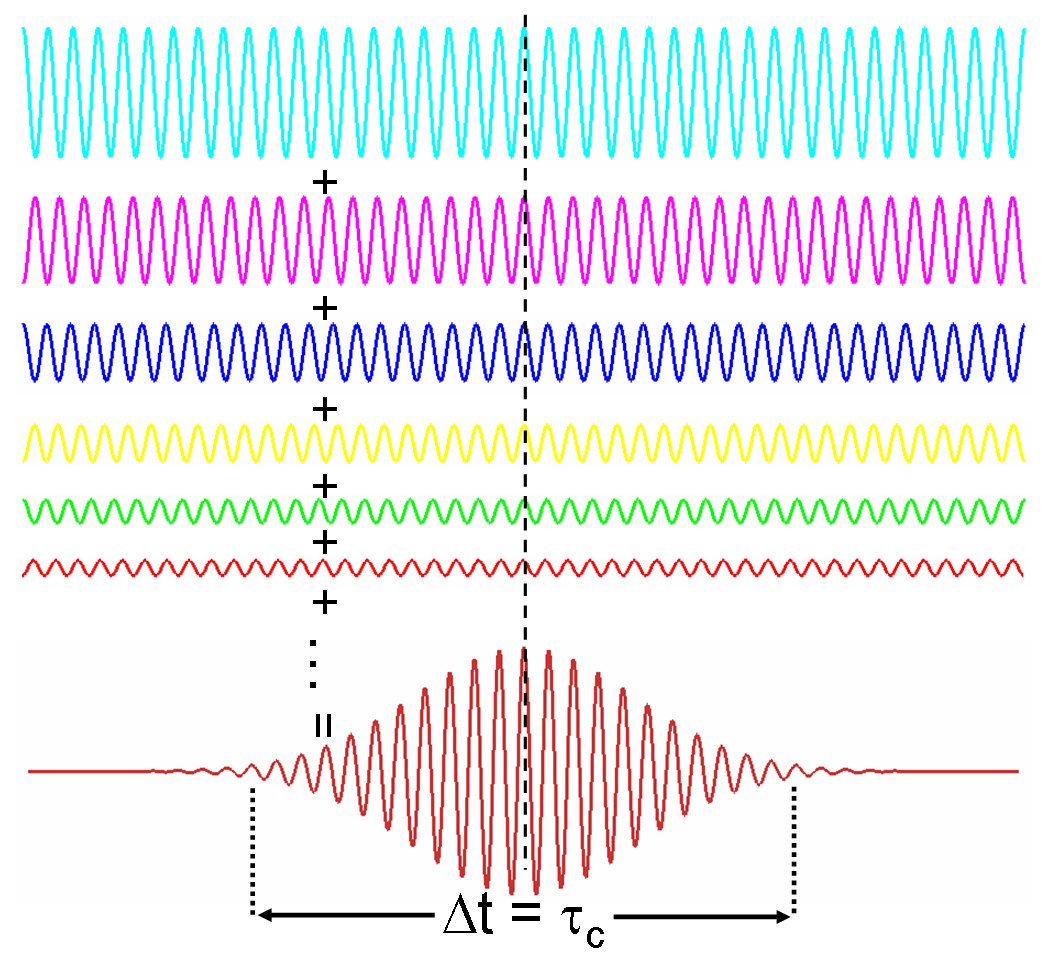 I made this myself.